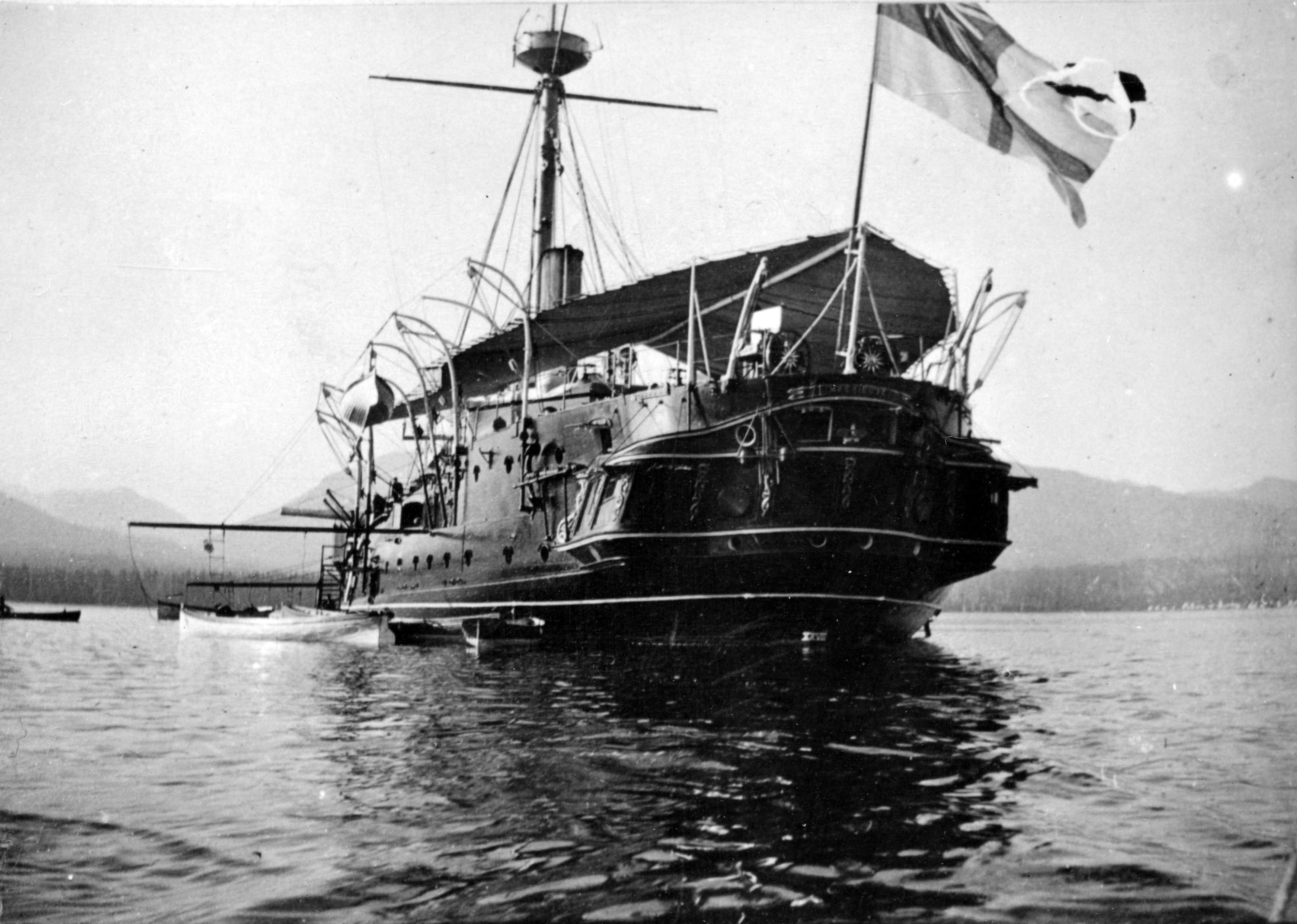 HMS Imperieuse in Burrard Inlet, British Columbia, Canada.